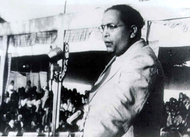 B. R. Ambedkar delivering a speech about conversion to a rally at Yeola, Nasik, on 13 October 1935